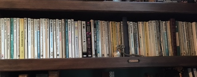 A picture of a bookshelf with a collection of Agatha Christie books